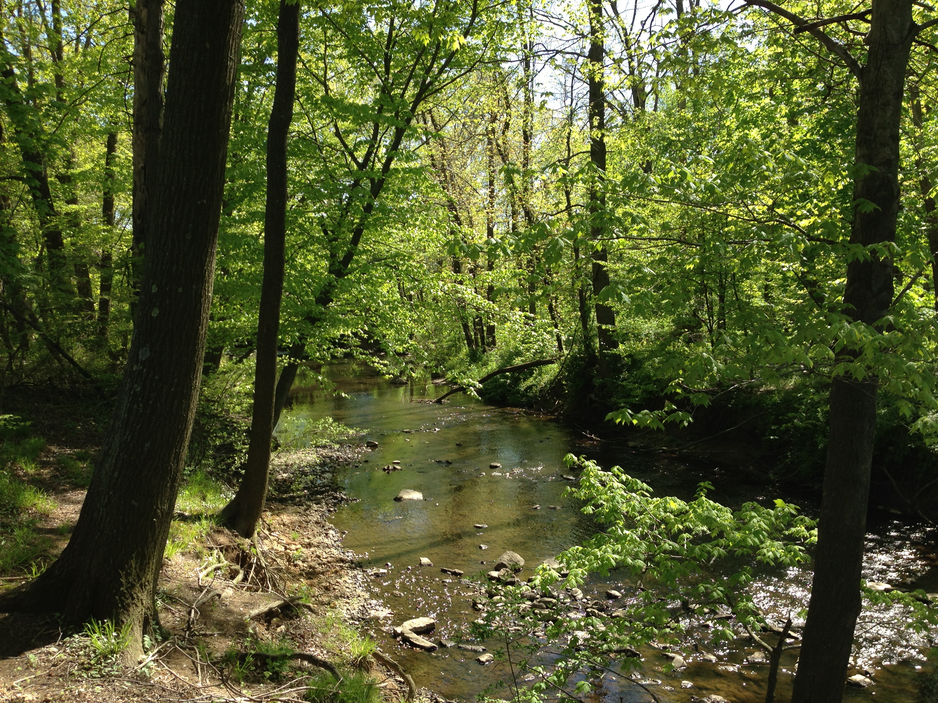 View down the Shabakunk Creek just below Colonial Lake in Lawrence Township, New Jersey